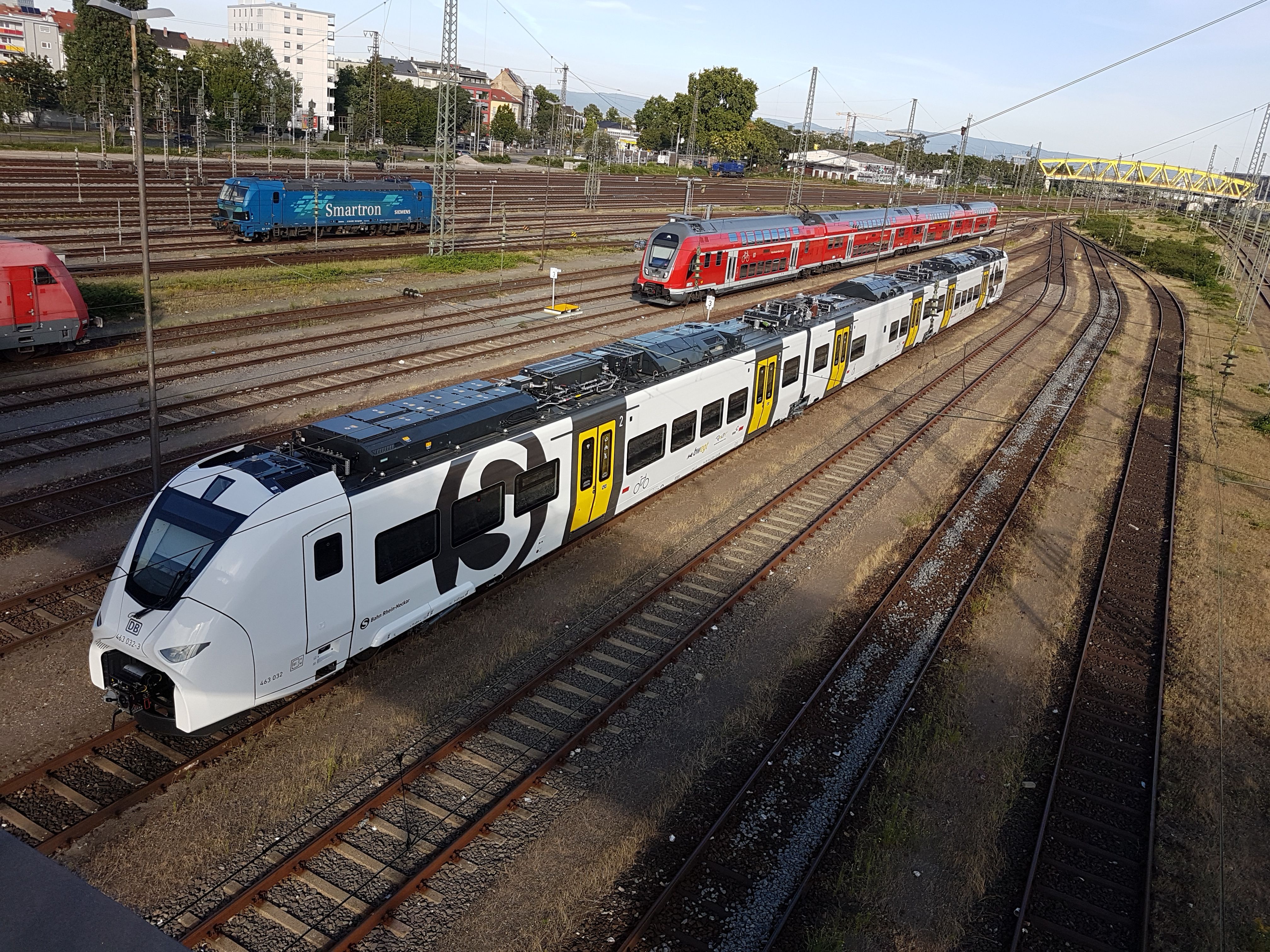 The new DB Baureihe 463, built by Siemens under the name Mireo, parking in Mannheim.